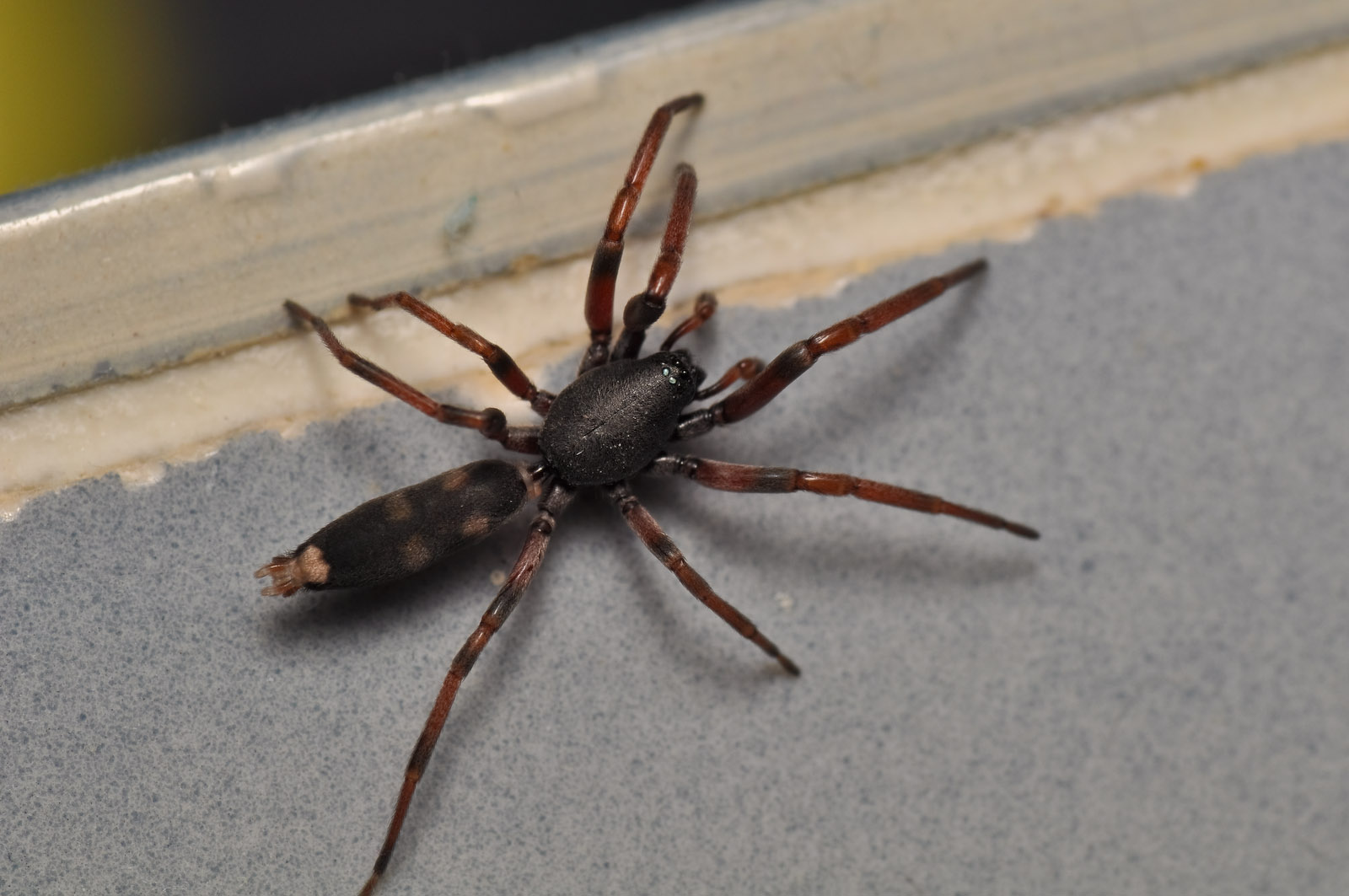 Australian White-Tailed Spider (Lamponidae) on bathroom tile, approx. 25mm in length. Taken in Castle Hill, Sydney, Australia on 14th December, 2008.